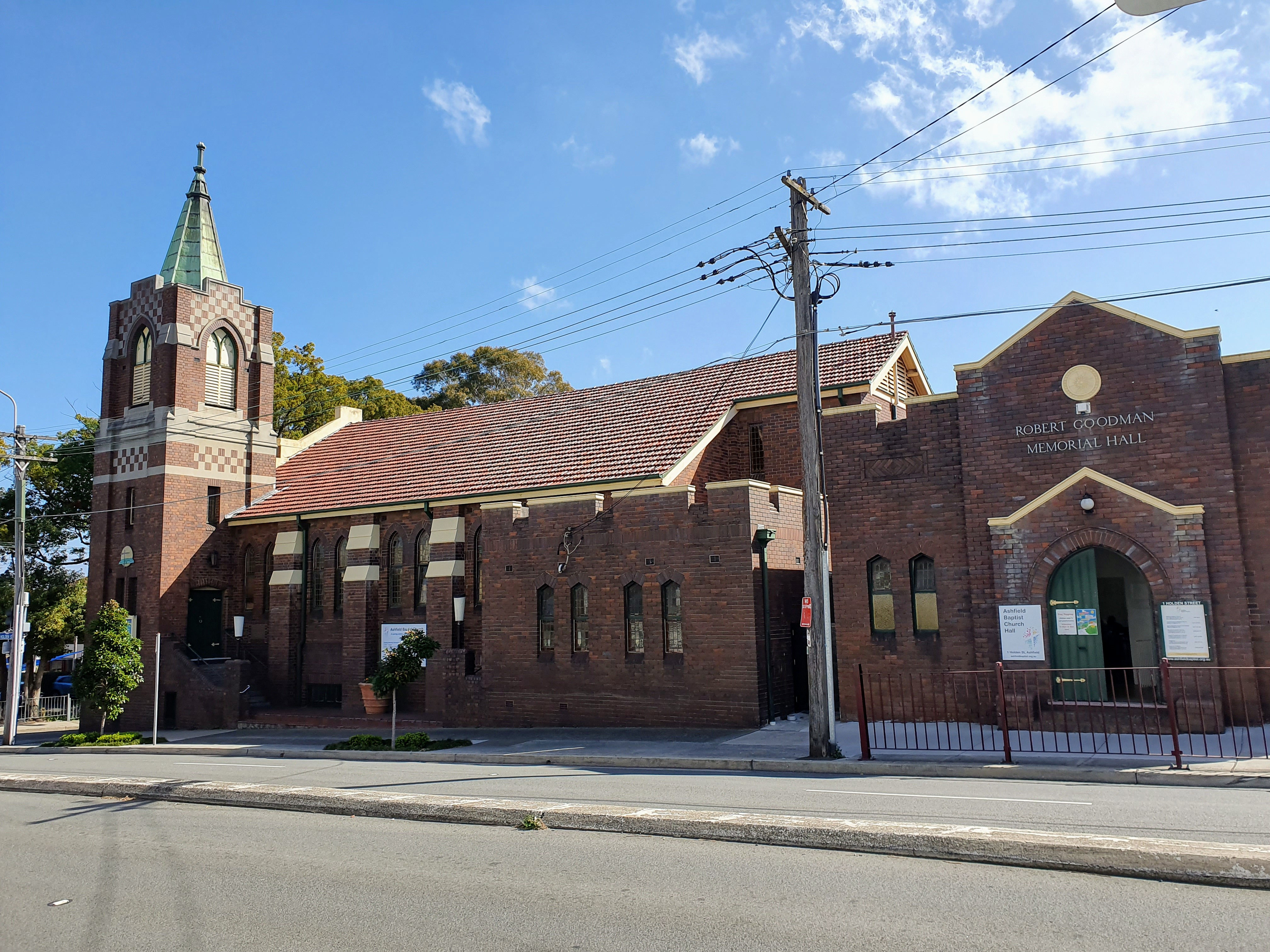 Ashfield Baptist Church as of August 2019 (suburban Sydney)